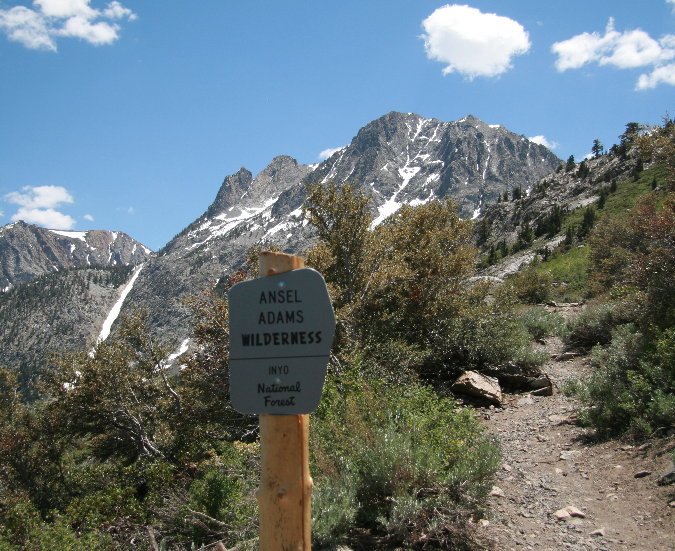 Official signpost on entering Ansel Adams Wilderness up the Rush Creek Trail from Silver Lake. Altitude 7690ft, looking up toward appropriate background scenery.